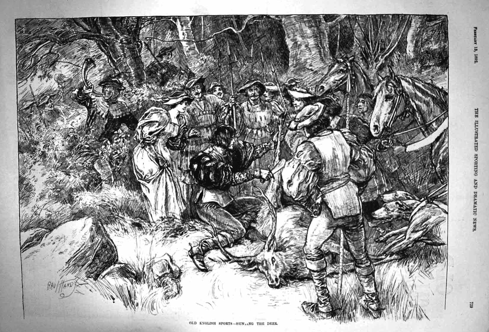 Illustration of deer hunt from 'The Illustrated Sporting and Dramatic News' 1892